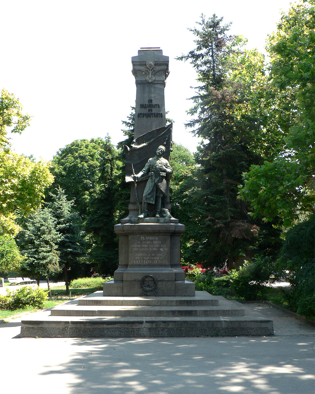 The Monument of soldiers and officer from 5th Danube Infantry Regiment died in Serbo-Bulgarian war in 1885, located at "Knjaz Aleskander Batenberg" square in Rousse, Bulgaria